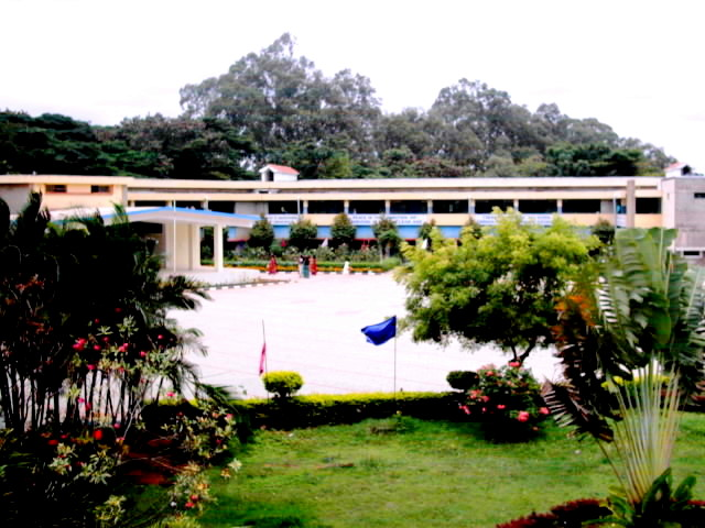 KVH Campus